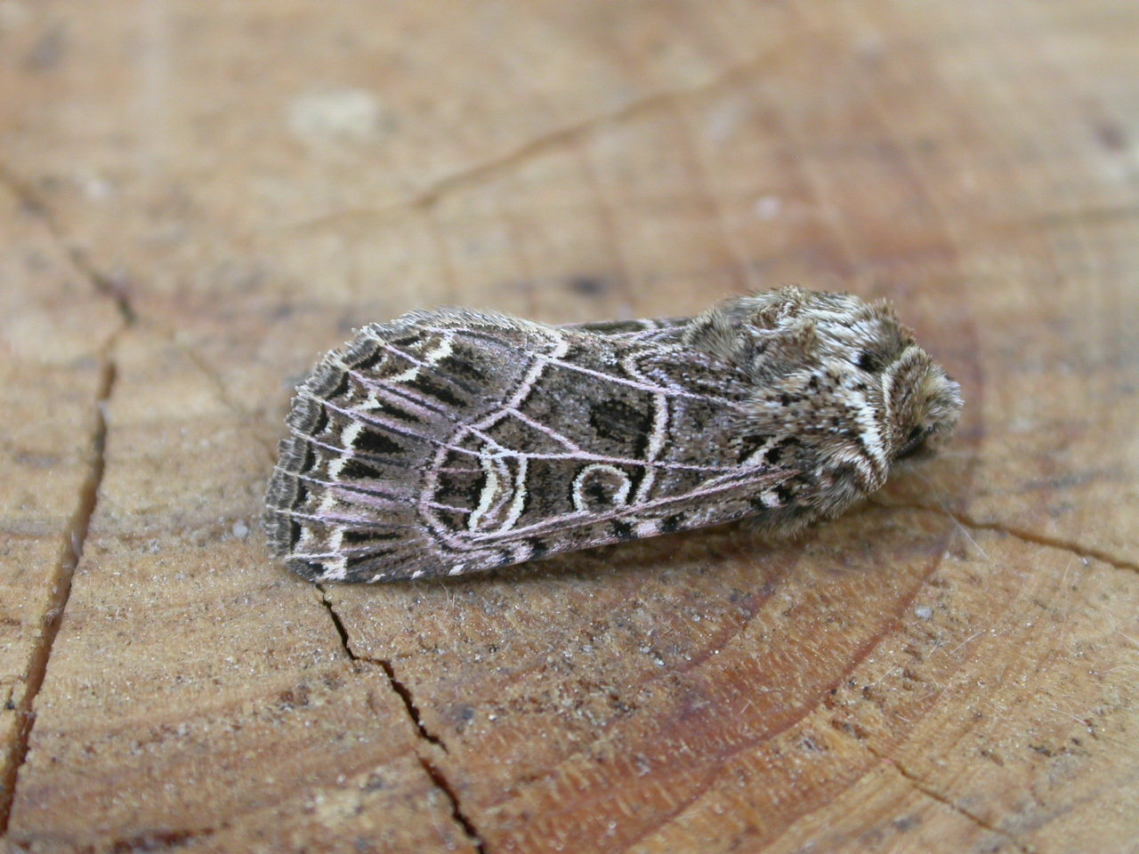 Heliophobus reticulata, to MV light, Hellerup, Denmark, 26 May 2003